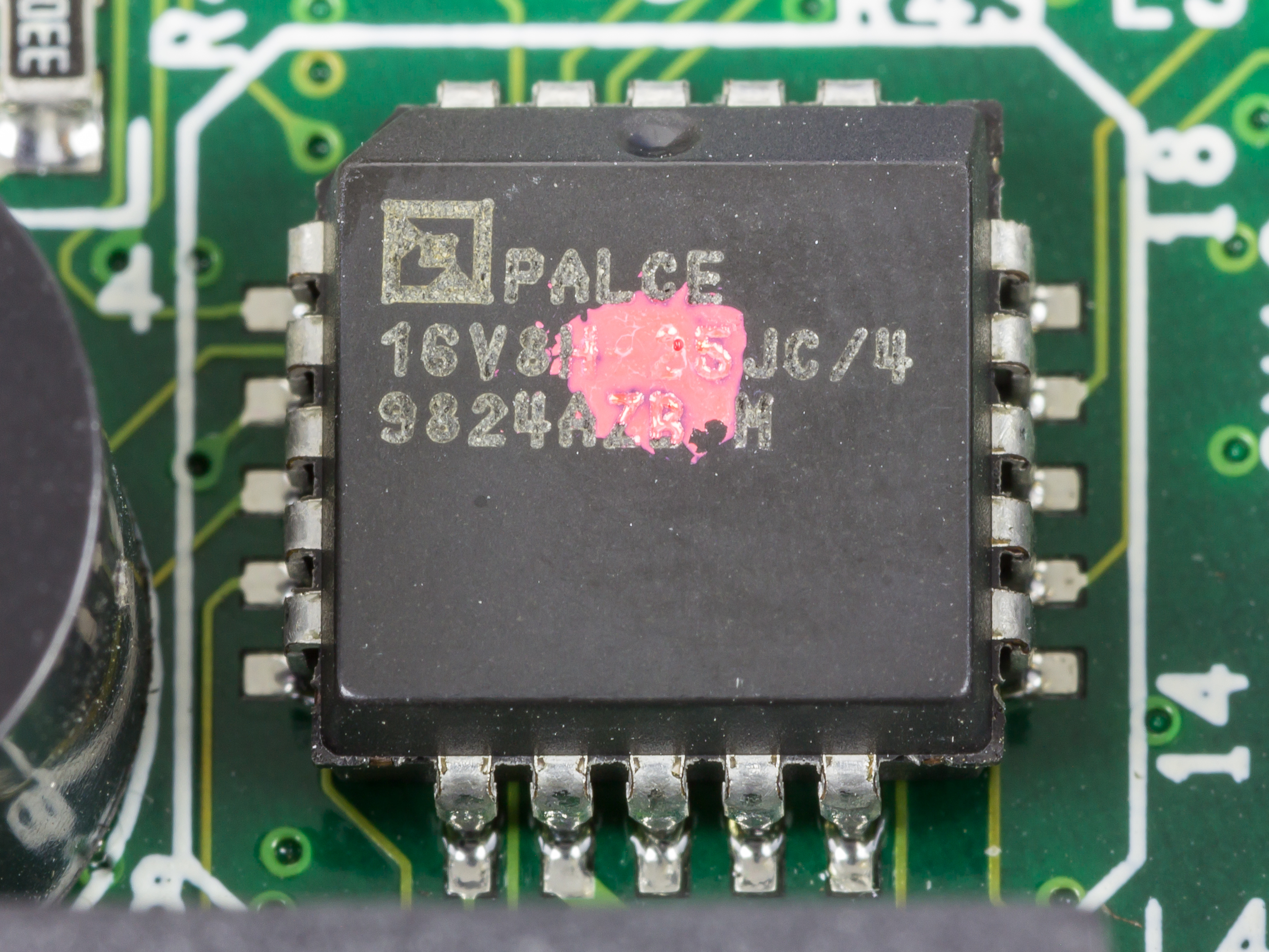 ROCKY-518HV - AMD Palce 16V8H-25JC/4 (EE CMOS 20-Pin Universal Programmable Array Logic)